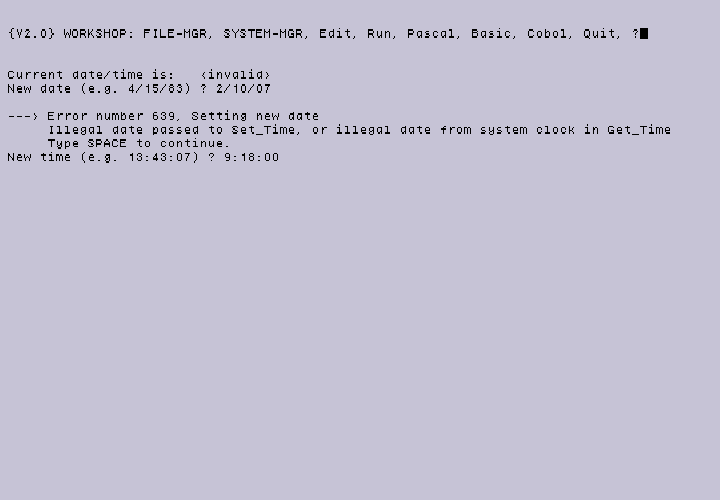 Screenshot of Apple Lisa Workshop